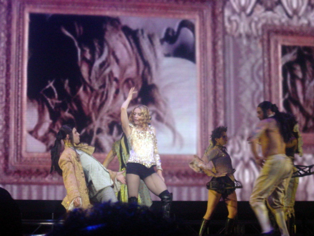 Concert